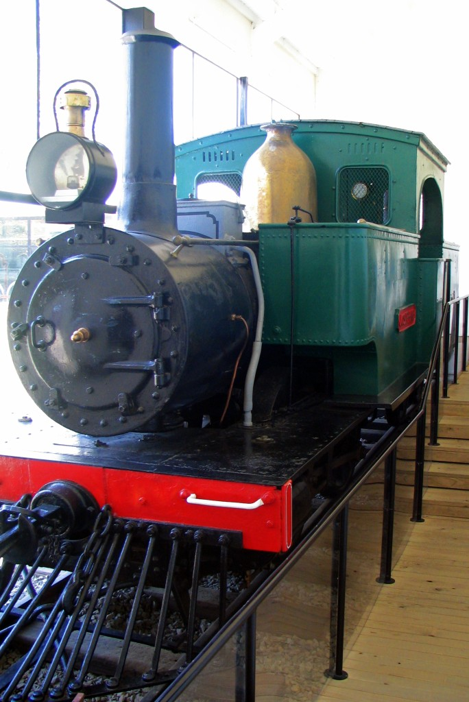 NZR E class (1872) "Josephine", at the Otago Settlers Museum, Dunedin, New Zealand. Own photo.